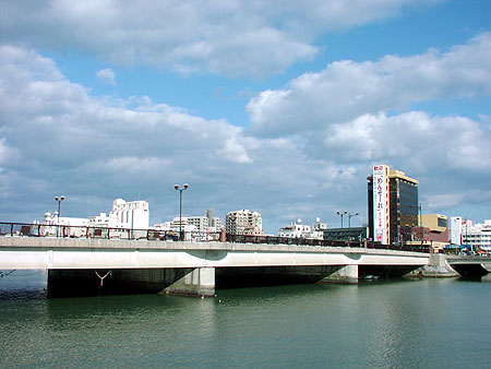 Meiji Bridge in Naha